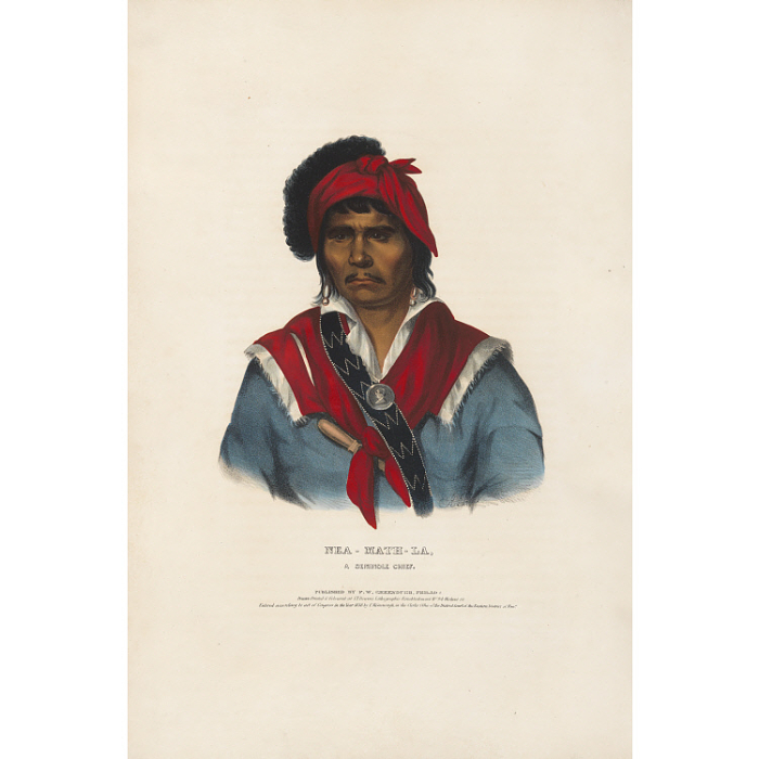 One of a collection of portraits of Native Americans by Charles Bird King